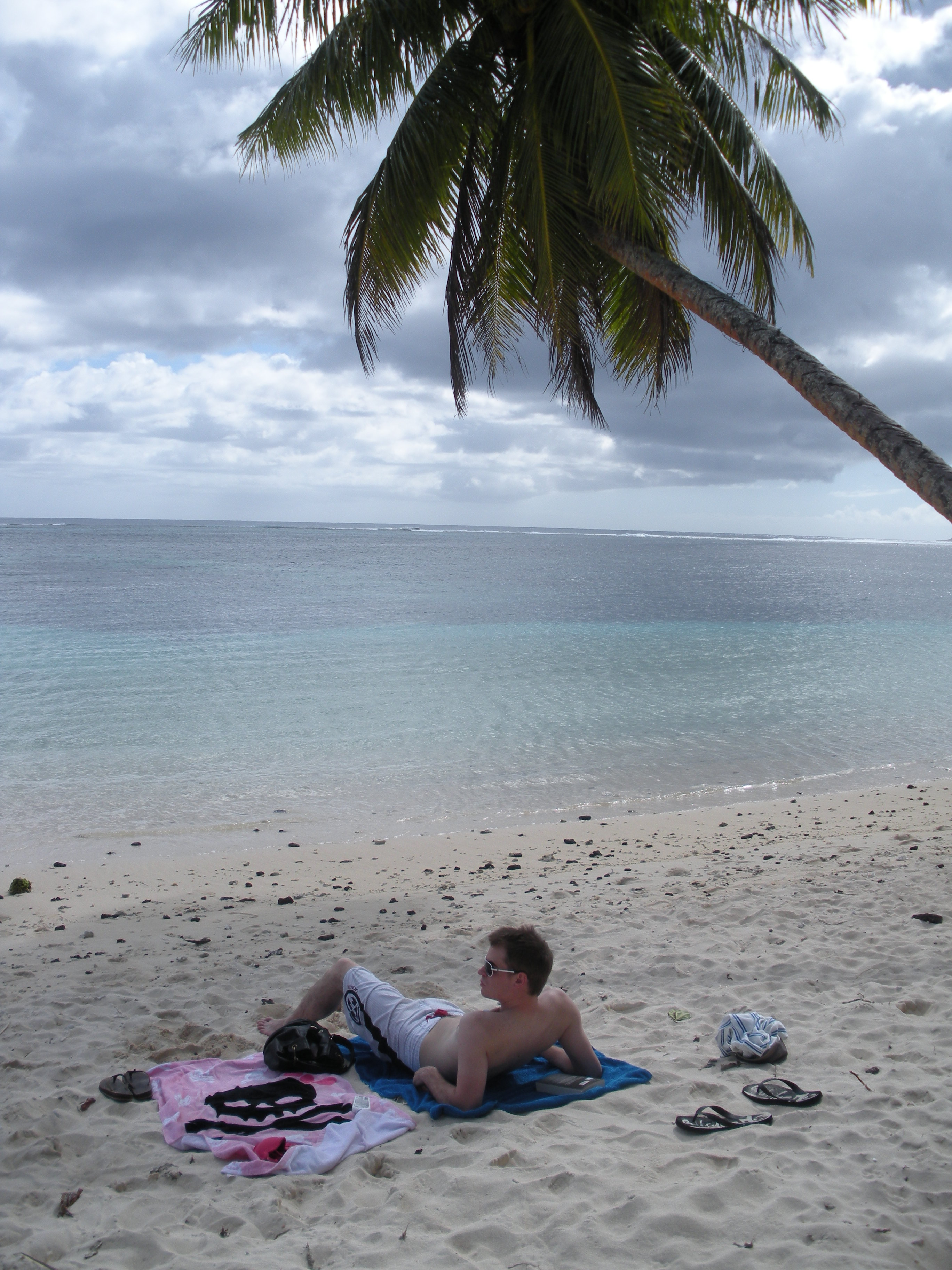 Tourist relaxing at Return to Paradise Beach, named after a movie starring Gary Cooper filmed at Lefaga on the south west coast of Upolu Island, Samoa, 2009